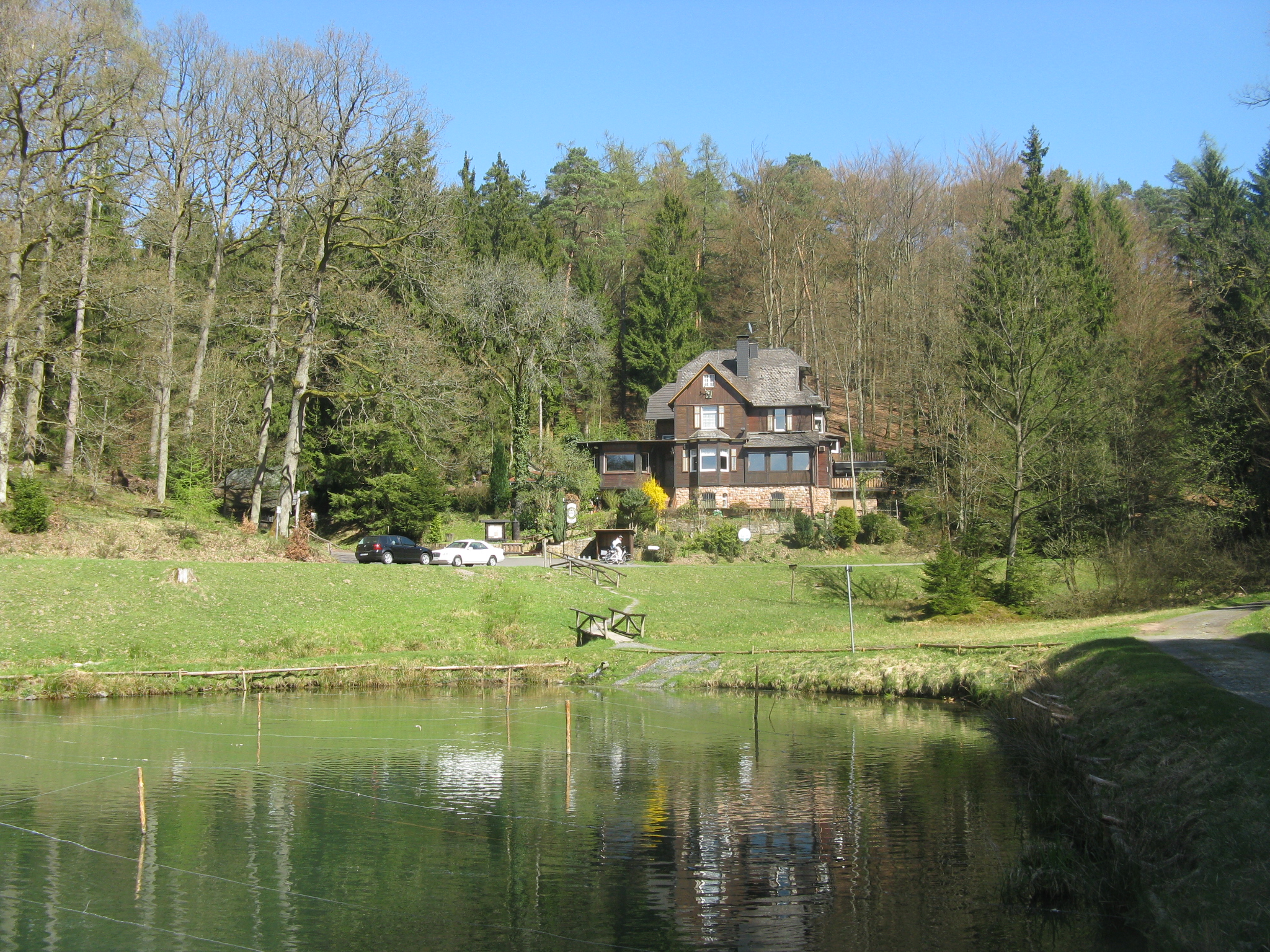 Haselruhe, near Bad Orb/Spessart (Germany)